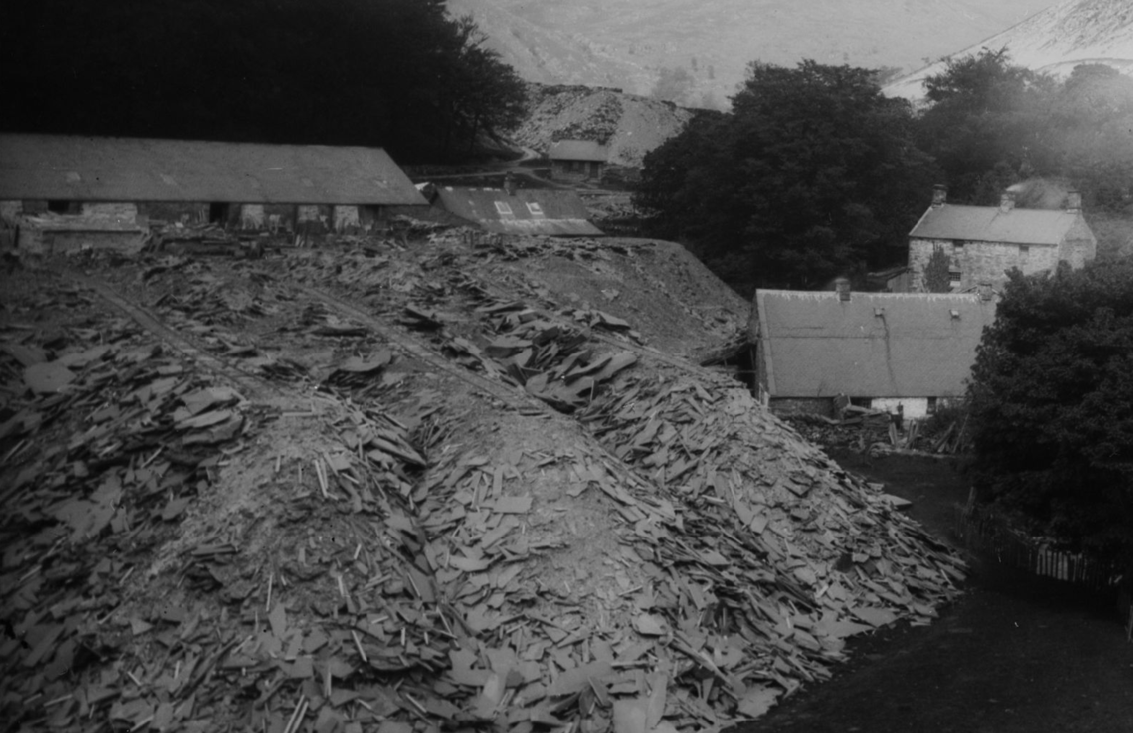 The Aberllefenni slate quarry's main mill, seen from the east. Large waste tips extend out from the rear of the mill. Just to the right of the mill building is the Aberllefenni quarry office with the Ratgoed Tramway passing behind it.